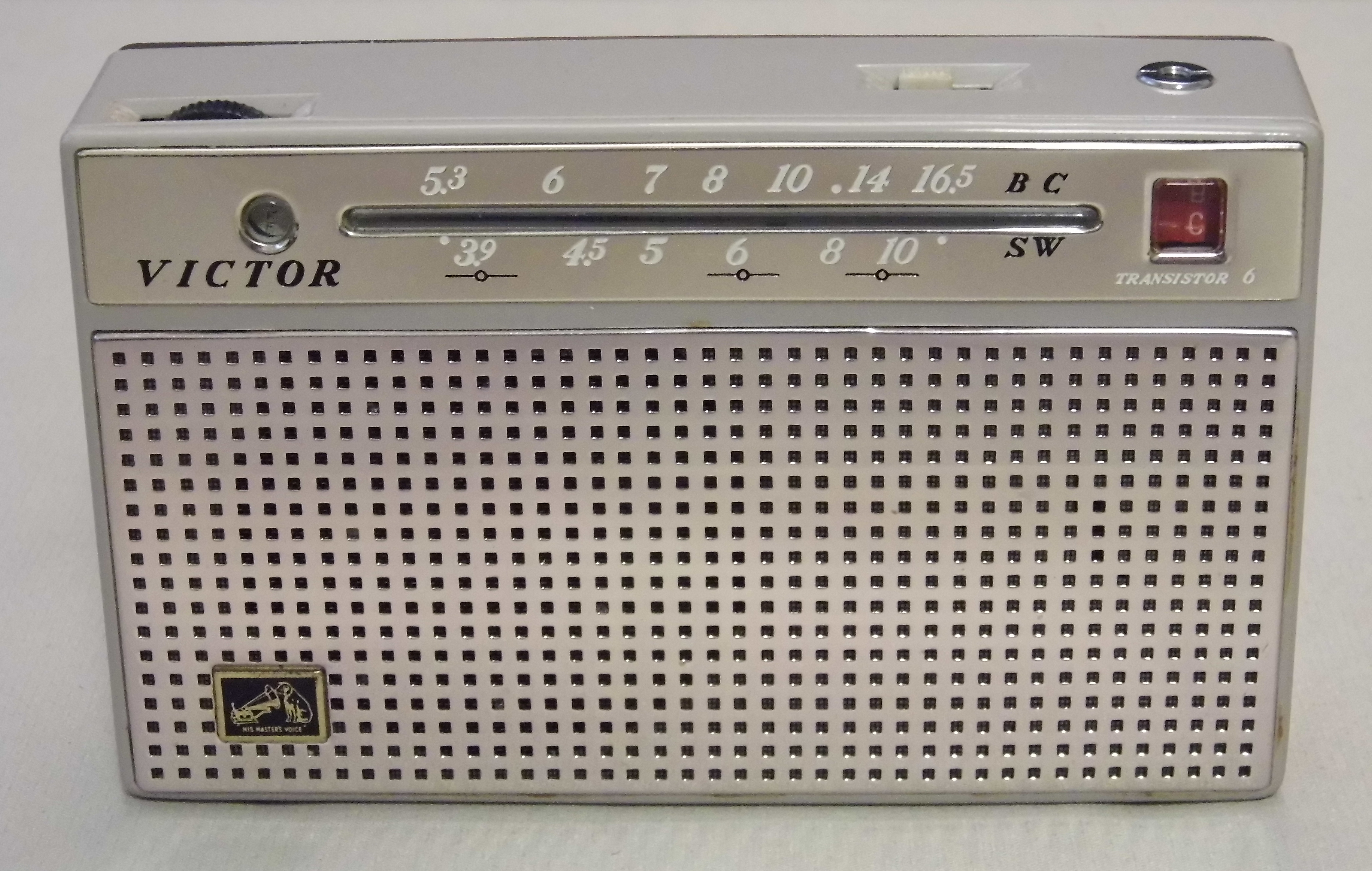 Vintage Victor Two-Band (AM/SW) 6-Transistor Radio, Model 6TA-1, Made in Japan (Victor Co. of Japan)